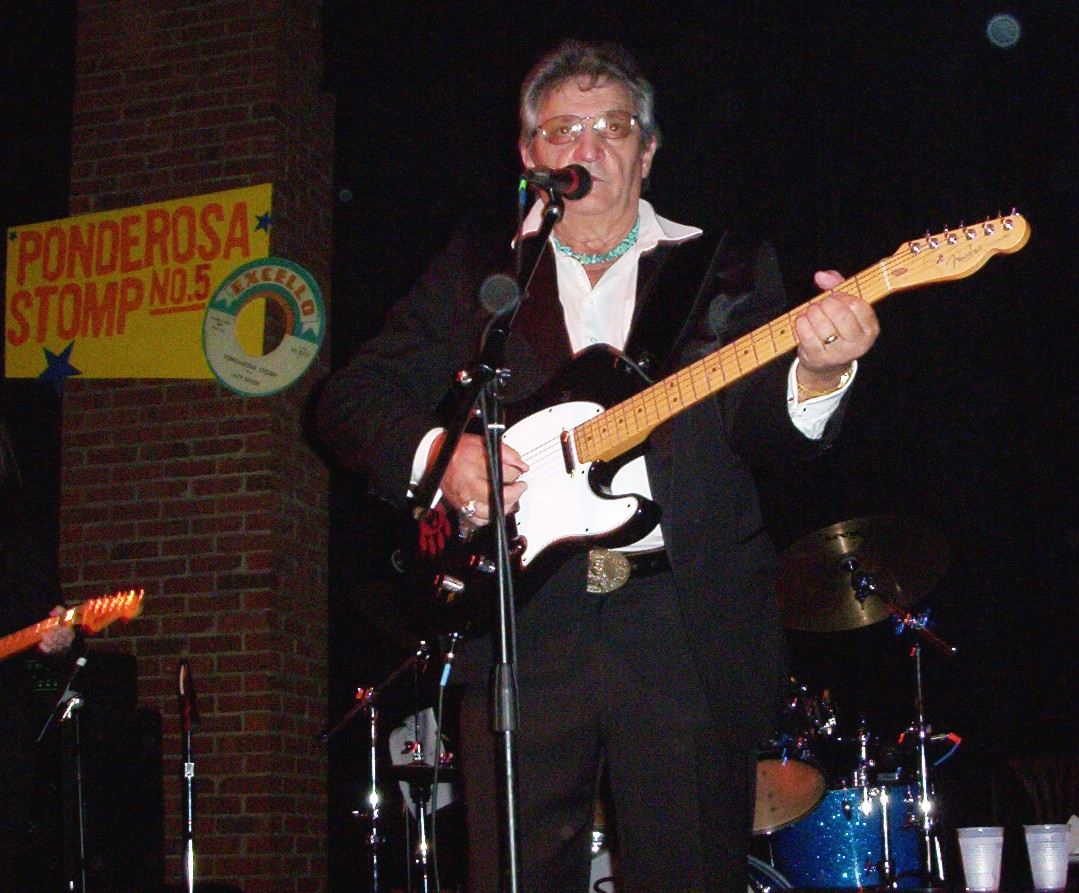 took over guitar position in Johnny Cash's band after Luther Perkins died